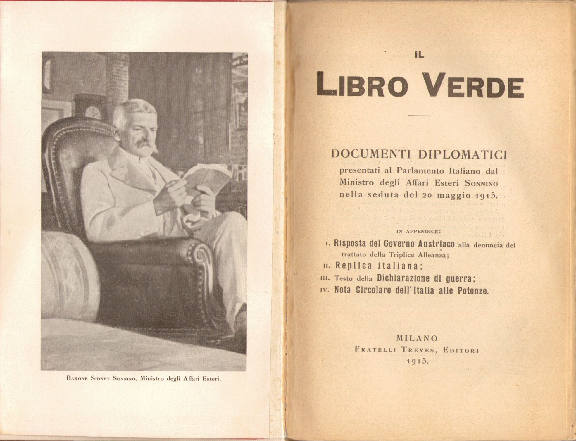 Title page of the book collecting diplomatic documents submitted to the Italian Parliament by the Minister Sidney Sonnino May 20, 1915.